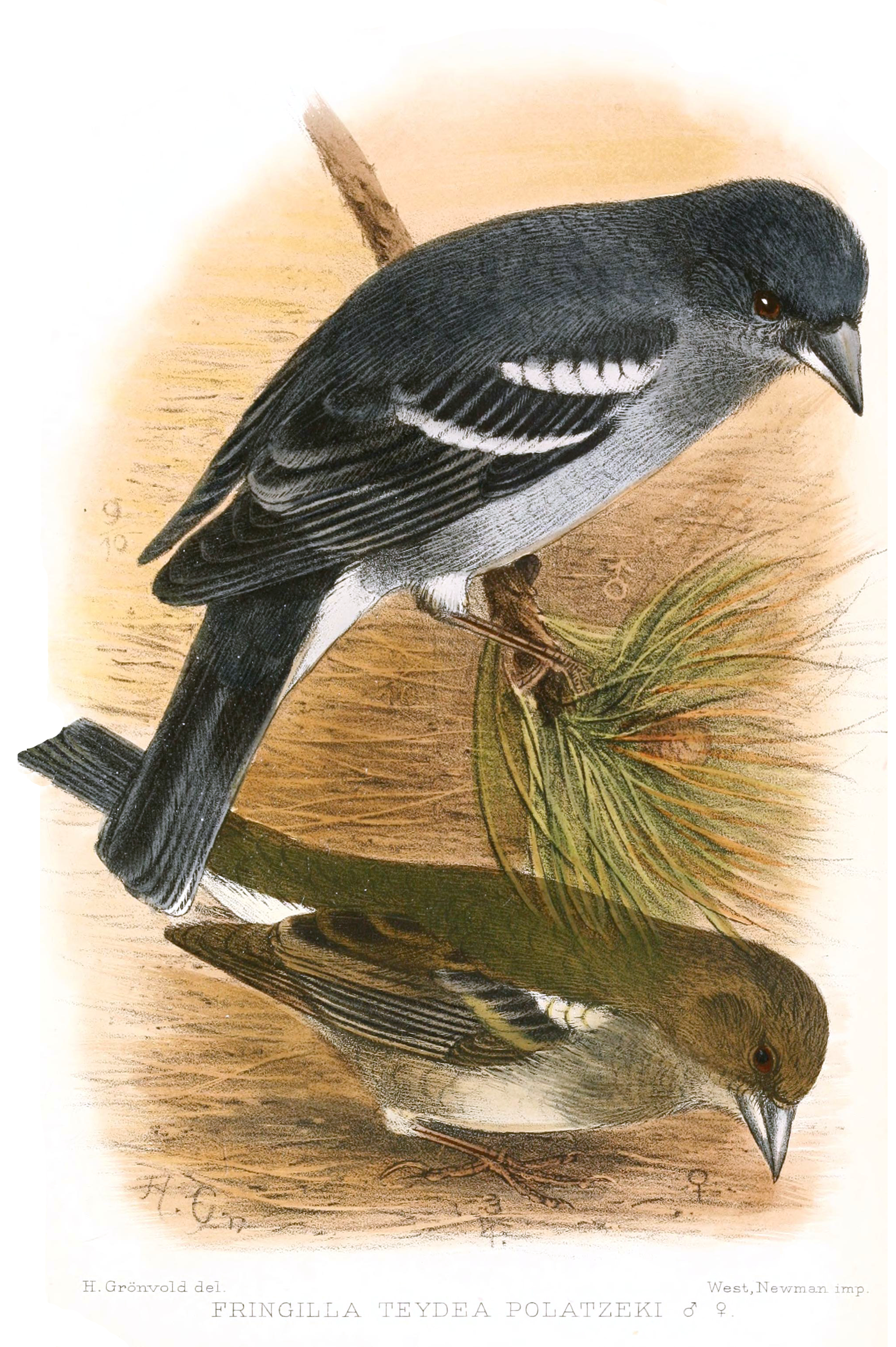 Fringilla teydea polatzeki. In the illustration appears as a subspecies Fringilla teydea polatzeki from Gran Canaria. In 2016 a paper published in Journal of Avian Biology showed it to be a separate species Fringilla polatzeki, not a subspecies.